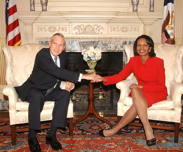 Secretary Rice with His Excellency Bernard Bot, Minister of Foreign Affairs of the Kingdom of the Netherlands.